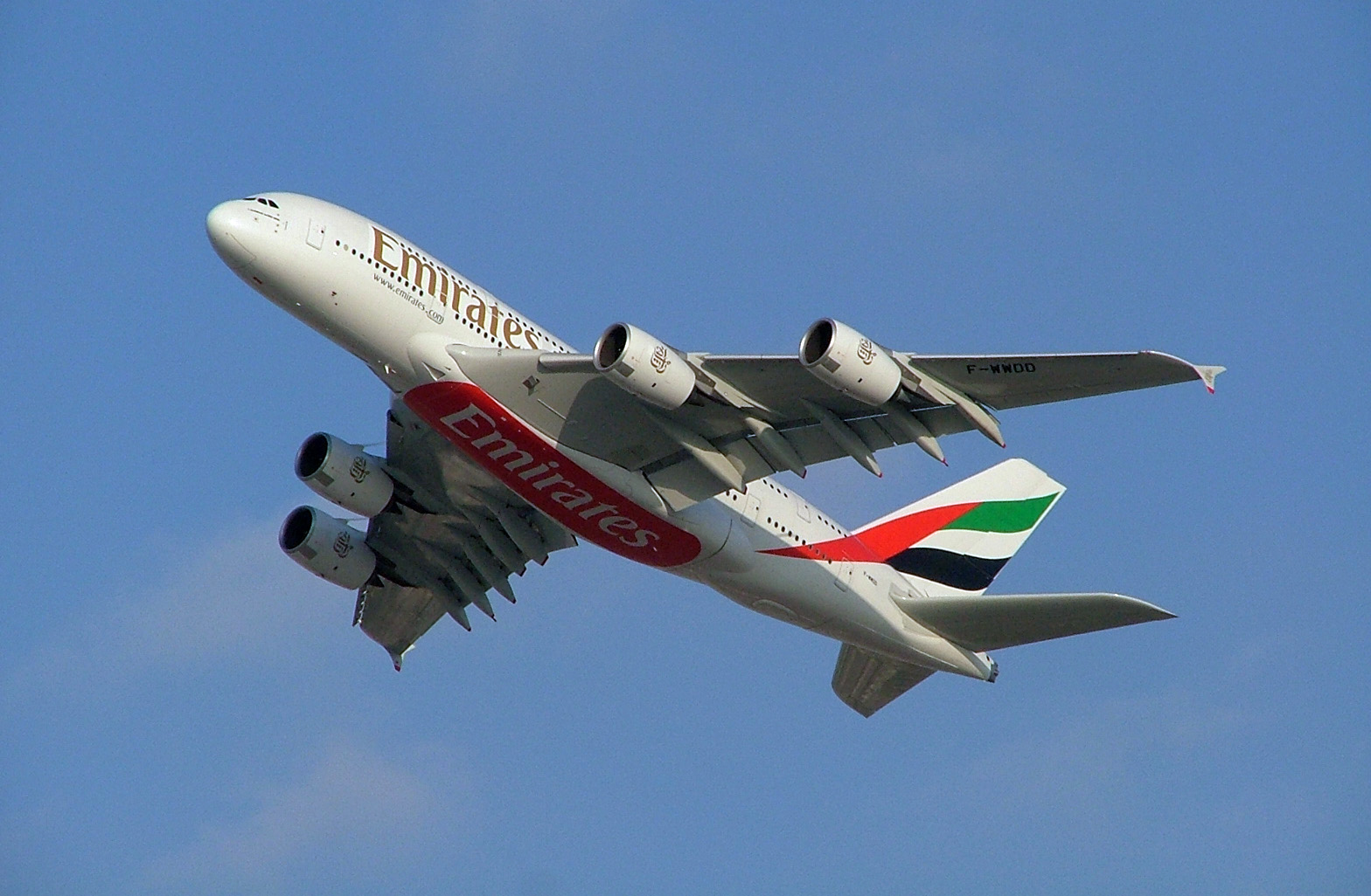 Airbus A380 (F-WWDD) painted in full Emirates Airlines colors.